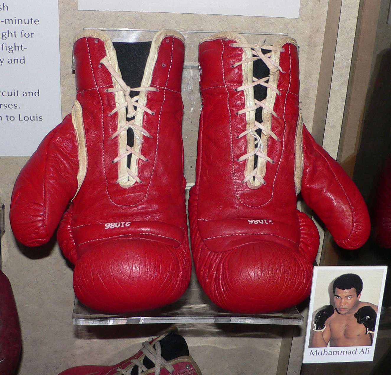 A pair of Muhammad Ali's boxing gloves, on display at the National Museum of American History, Washington, DC.